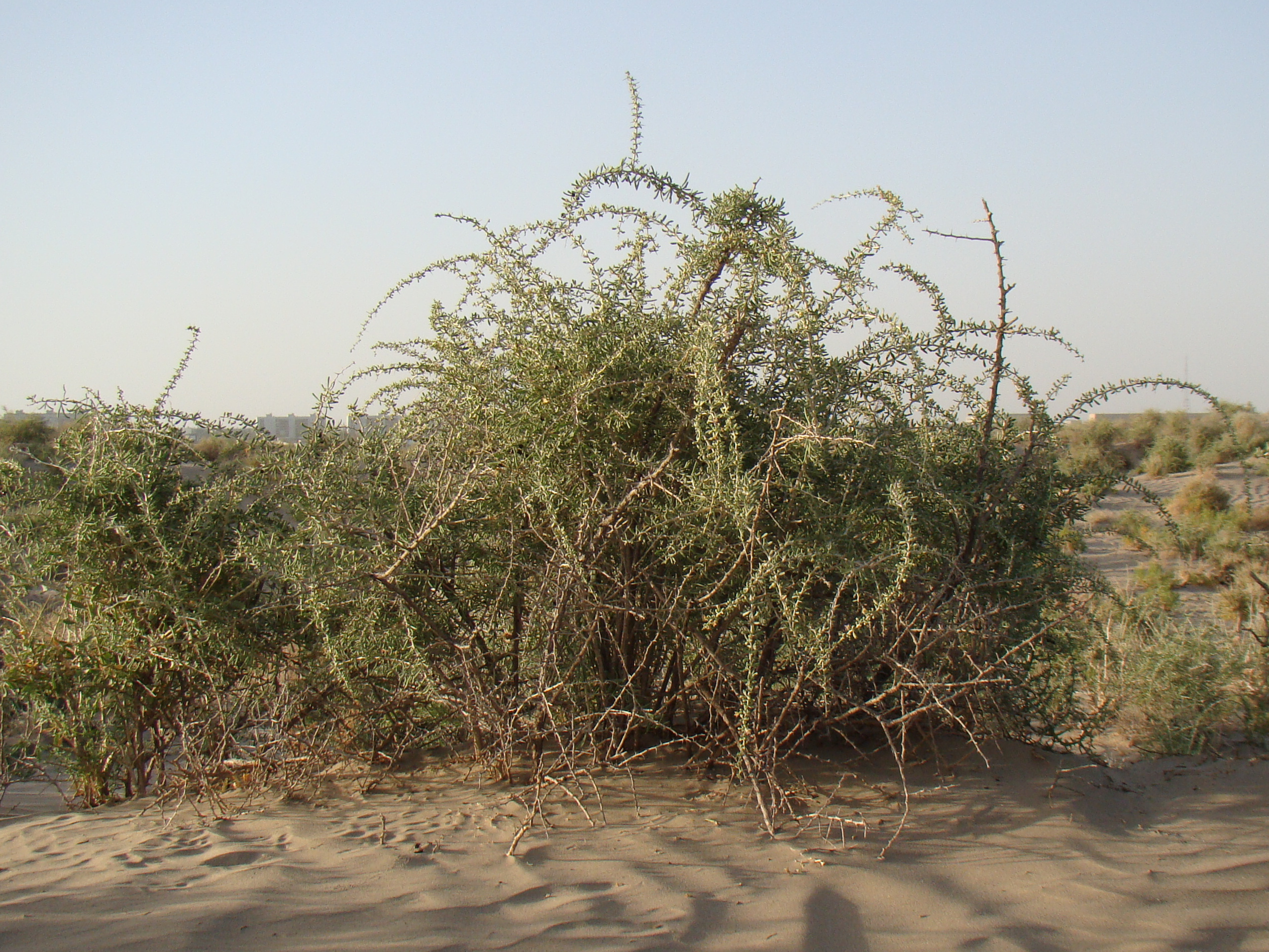 Lycium ruthenicum. Near Baikonur, Kazakhstan.